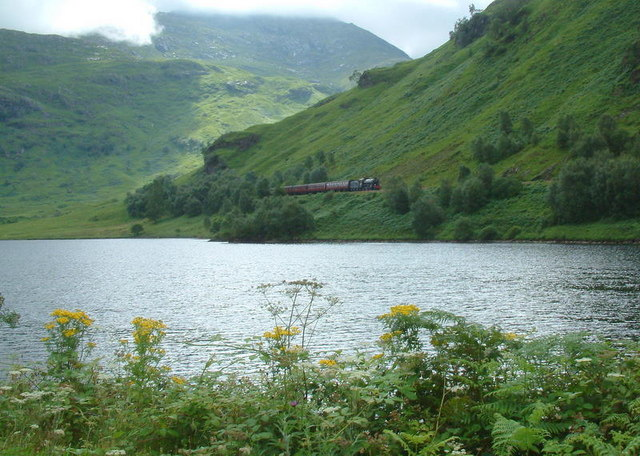 The Jacobite (now "Hogwarts Express" train, Loch Eilt